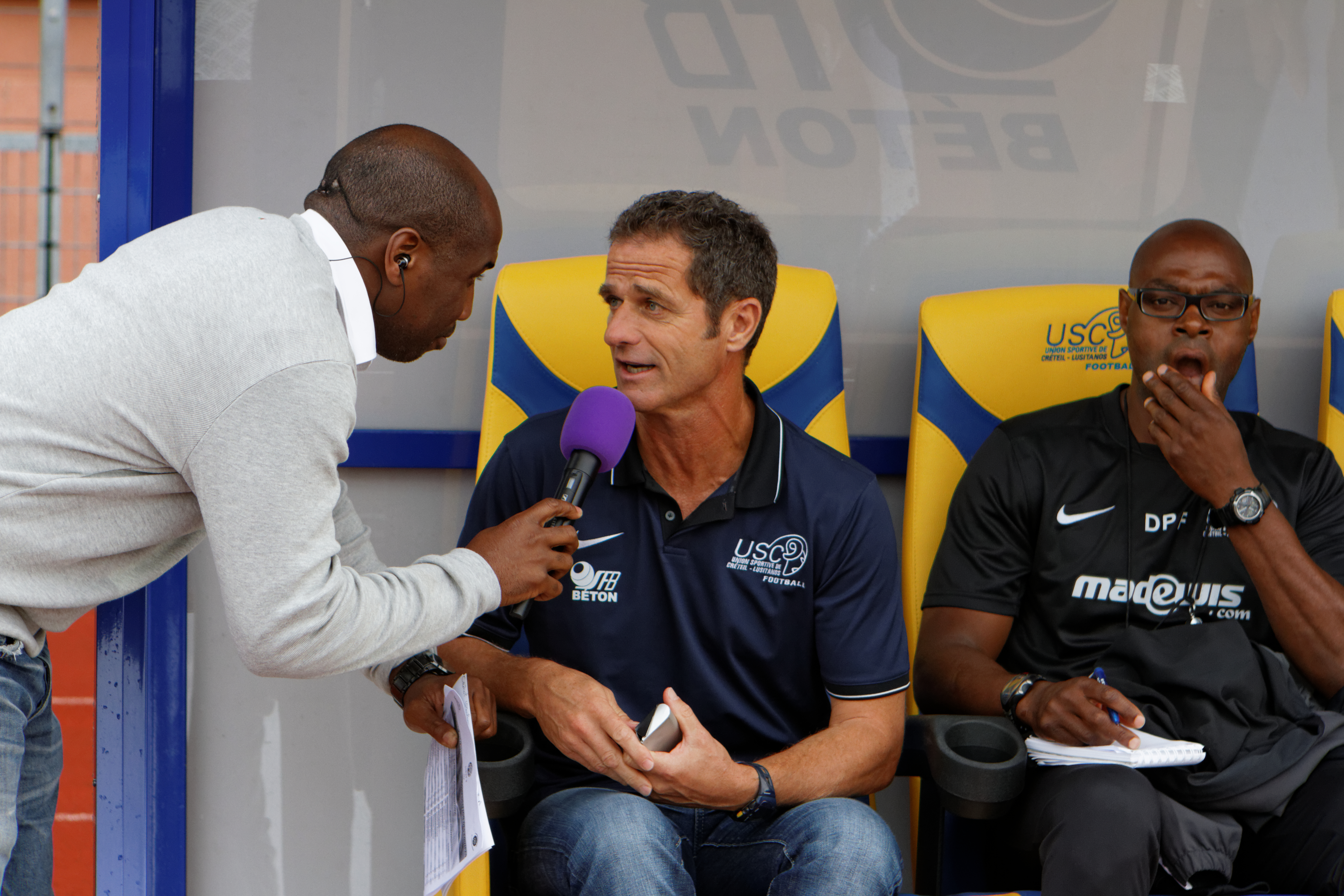 Créteil vs Châteauroux, 8th August 2014.